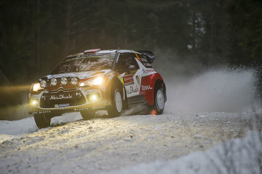 Rally Sweden 2014 Citroen DS3 WRC,Citroen Total Abu Dhabi WRT,Citroen Total Abu Dhabi World Rally Team,Jonas Andersson,Mads Östberg,Motorsport,Rally,Rally Sweden,Rallye,Rallye Schweden,Shakedown